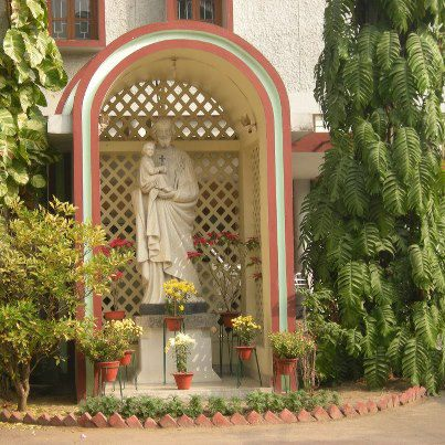 Statue of Jesus in St. Joseph's Convent High School, Patna